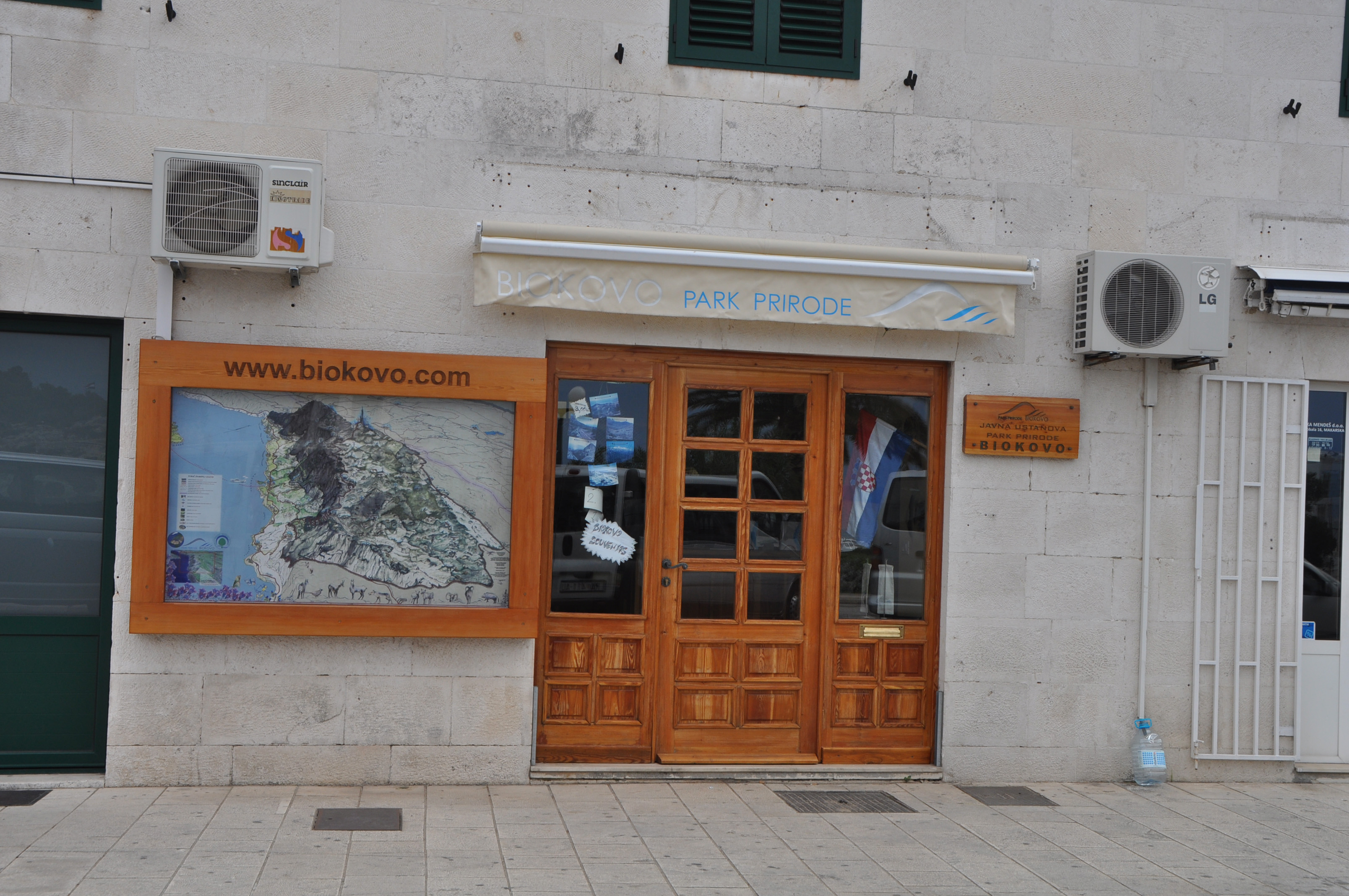 Biokovo Nature Park Visitor Center, Makarsk, Dalmatia, Croatia